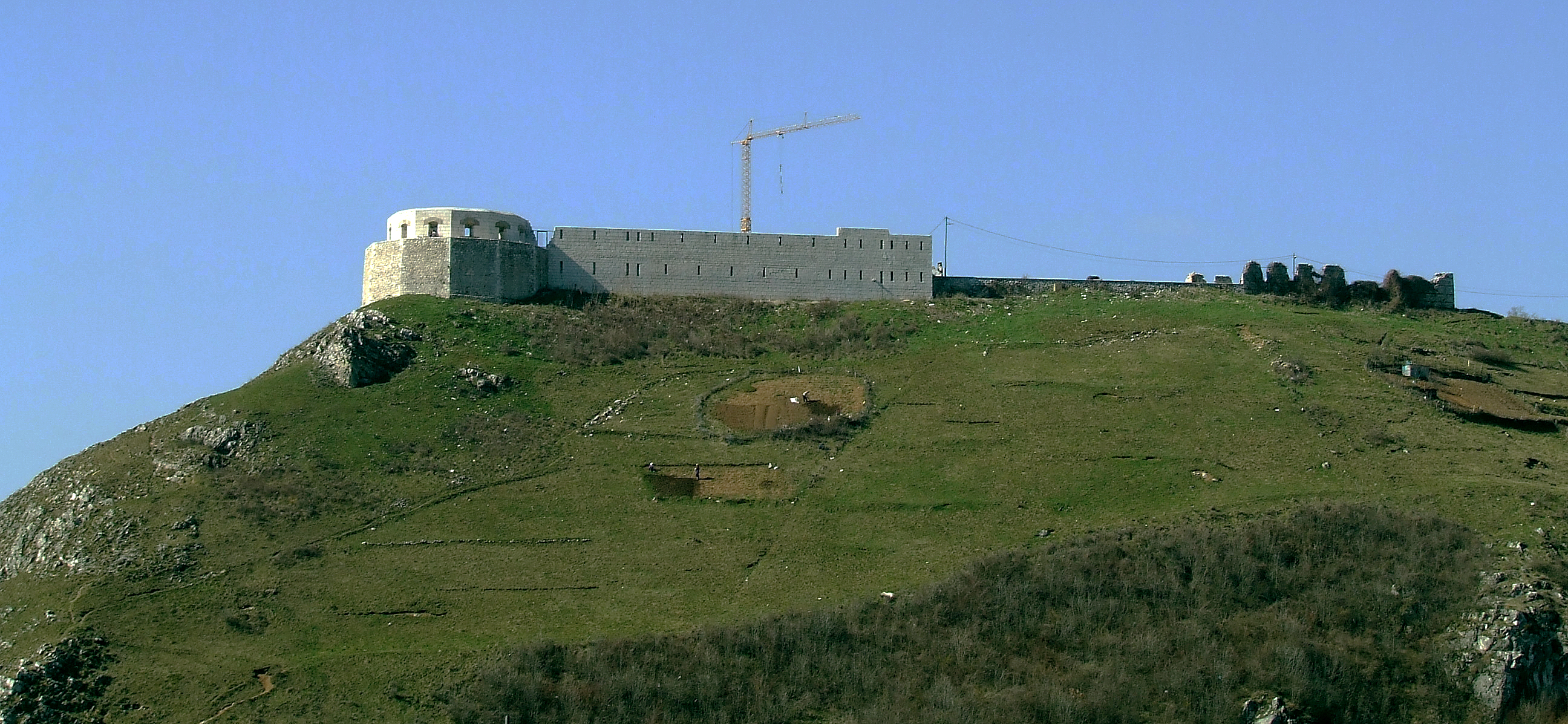 The old castle of Bijela Tabija in Sarajevo (15th-19th century)